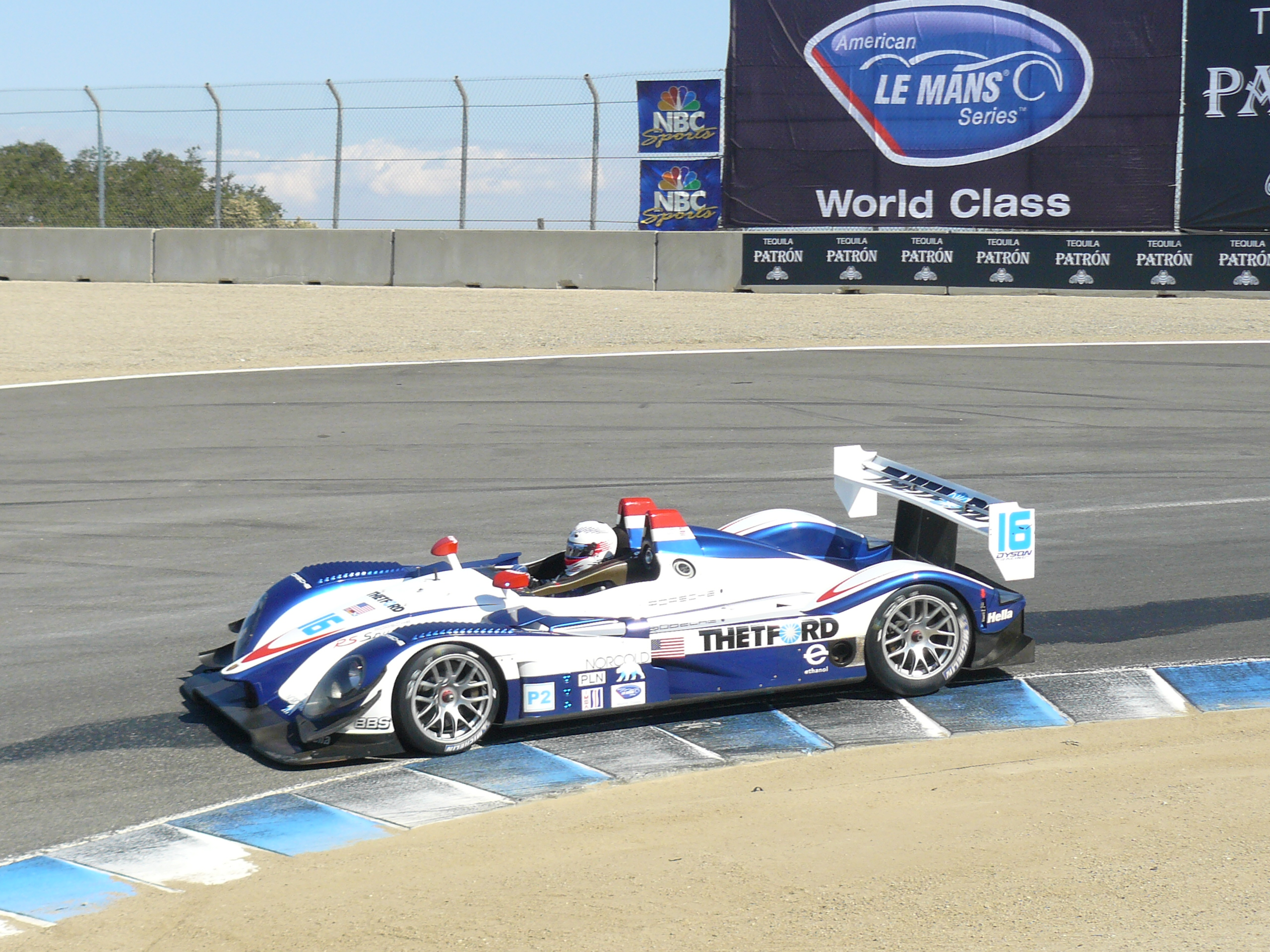 No.16 Dyson Racing Porsche RS Spyder on the Corkscrew - ALMS Laguna Seca, Monterey, California, USA. October 2008